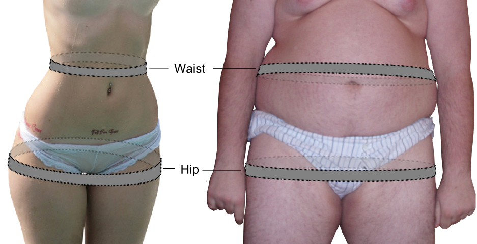 Image illustrating the measurement of the parameters of waist-hip ratio.